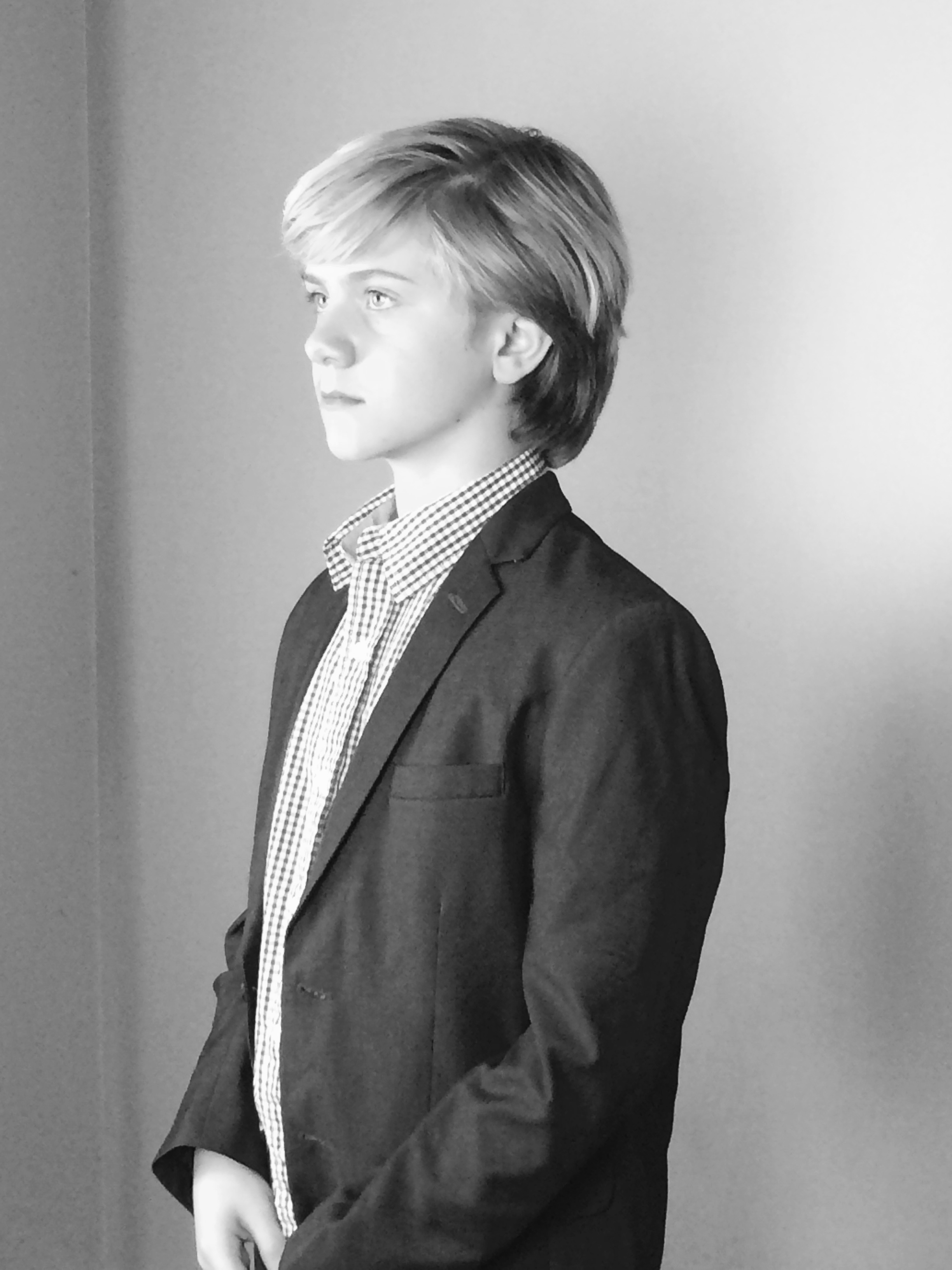 Aiden Flowers at his home in 2016